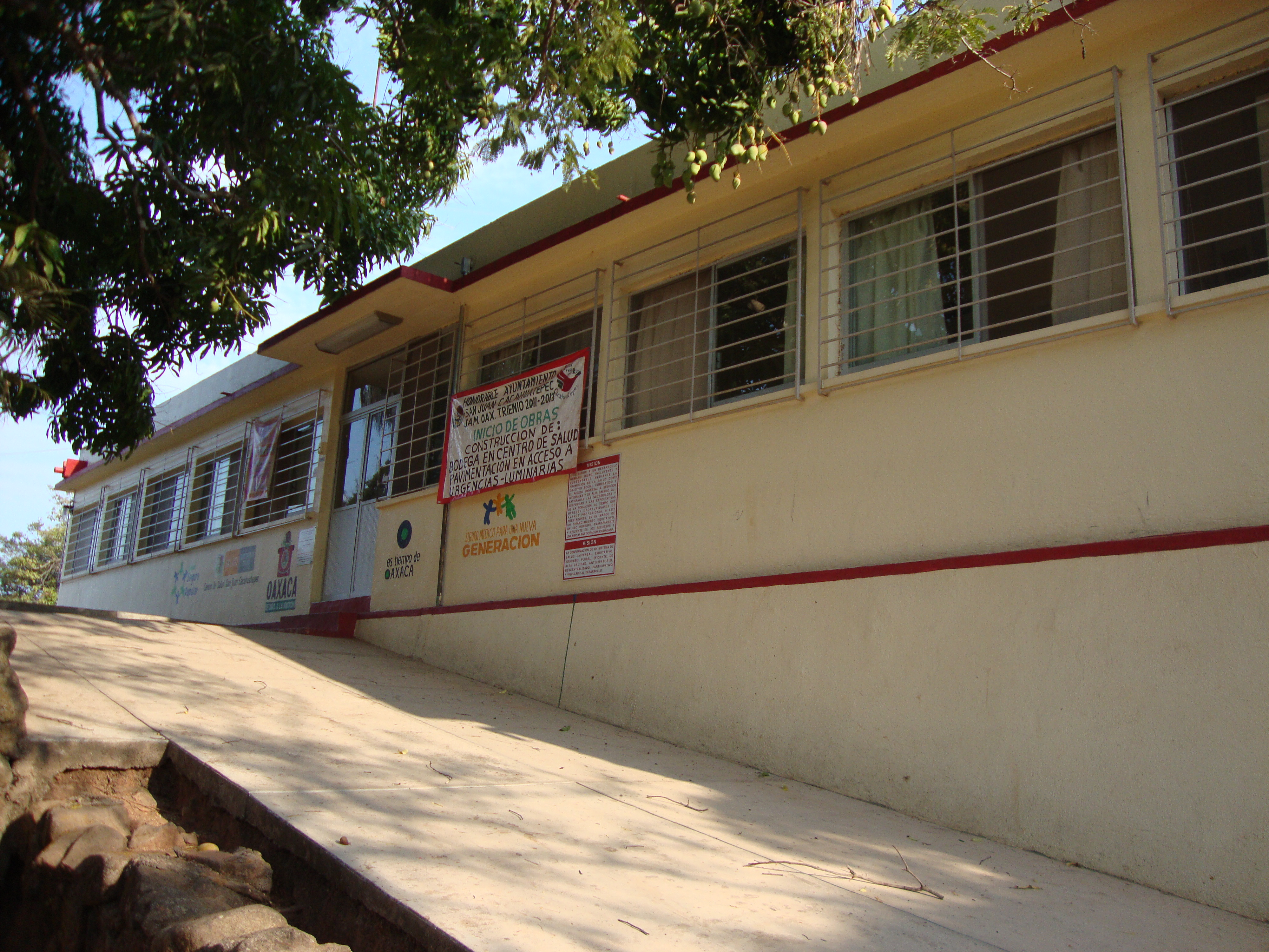 Hospital Of Cacahuatepec